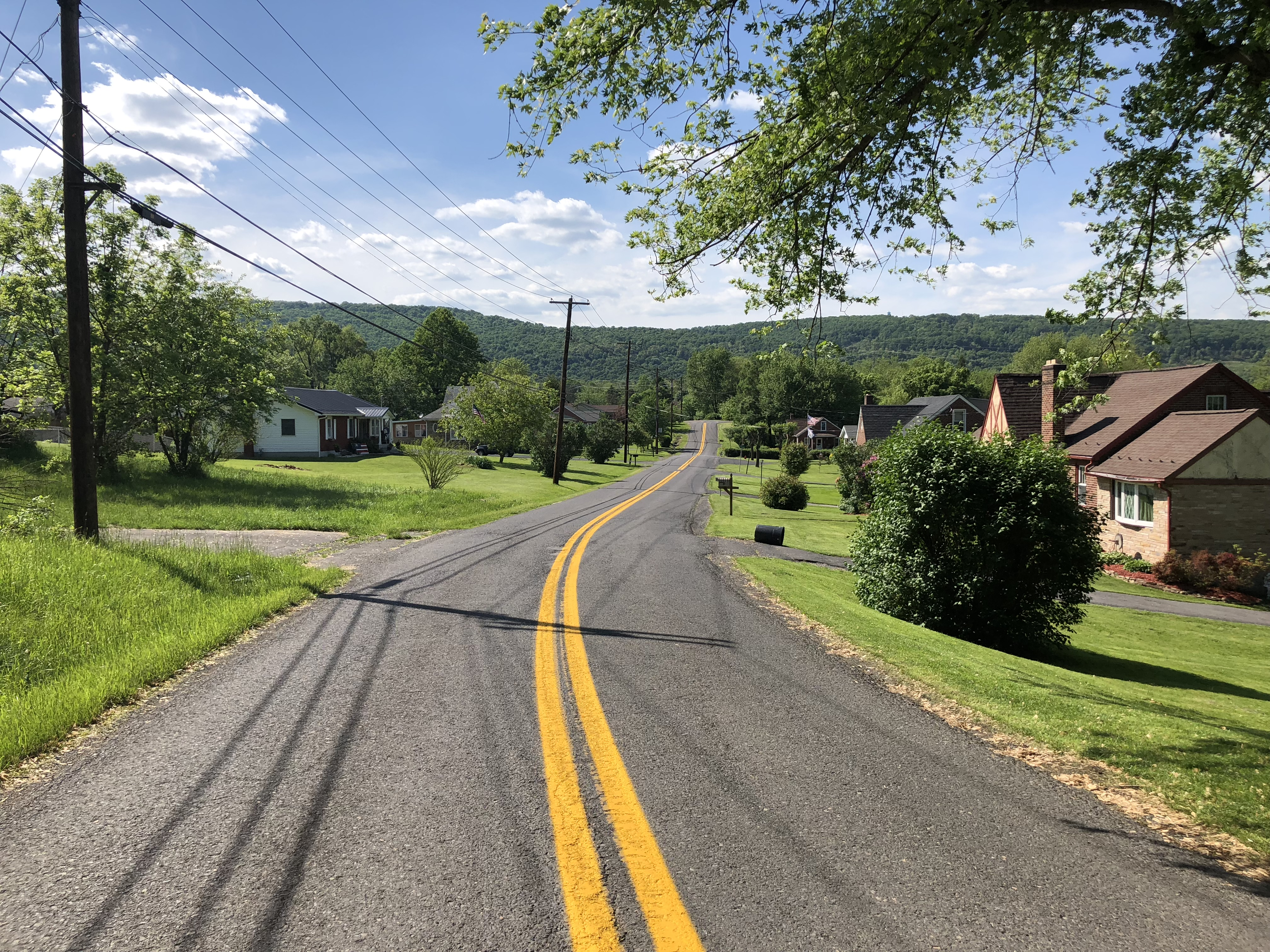 View northwest along Mineral County Route 28 (Miller Road) at Washington Street in Carpendale, Mineral County, West Virginia